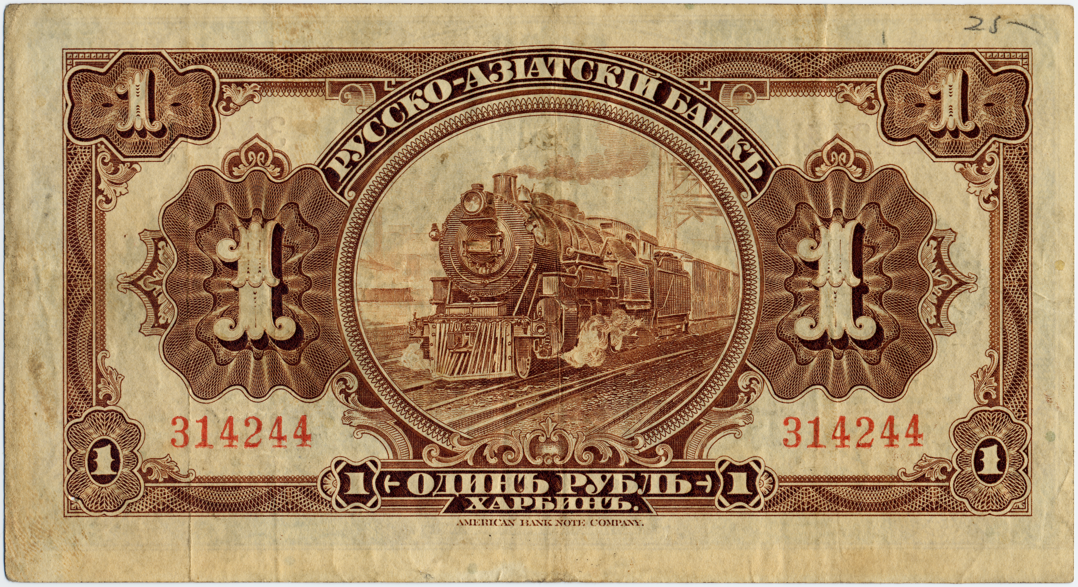 Russian-Asiatic Bank banknote printed by American Bank Note Corporation, 1 ruble, obverse. Issued 1917 in Harbin. The Bank is more commonly know by its original name: 華俄銀行 Russo-Chinese Bank.